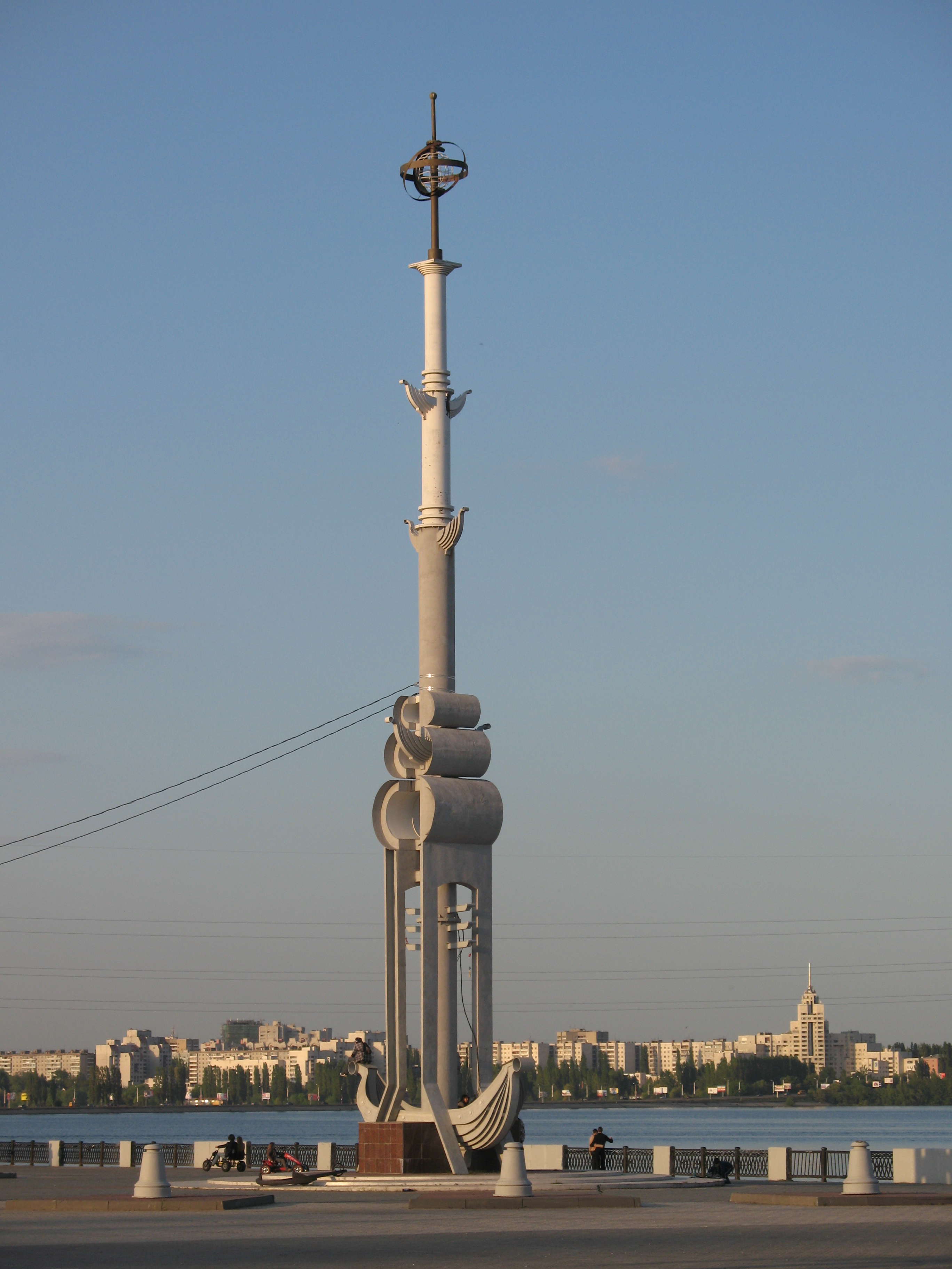 Admiralteyskaya Square (Voronezh)